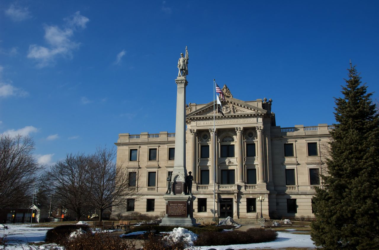 DeKalb County Courthouse in Sycamore, Illinois. In front of the courthouse is a Civil War monument erected in 1896, reading To the memory of the men who fought to preserve the Union: "That the nation shall under God, have a new birth of freedom, and that government of the people, by the people, and for the people shall not perish from the Earth."